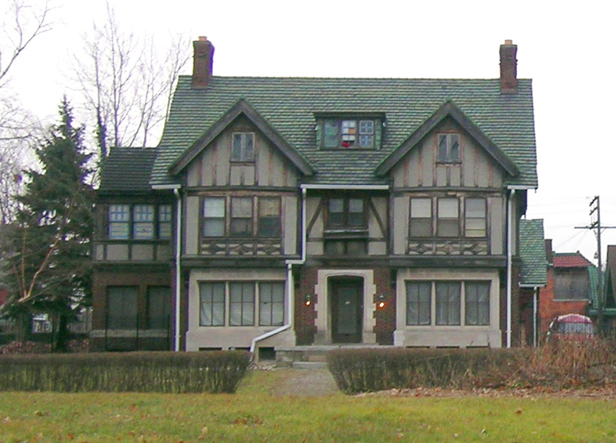 House in Arden Park-East Boston for use in APEB article